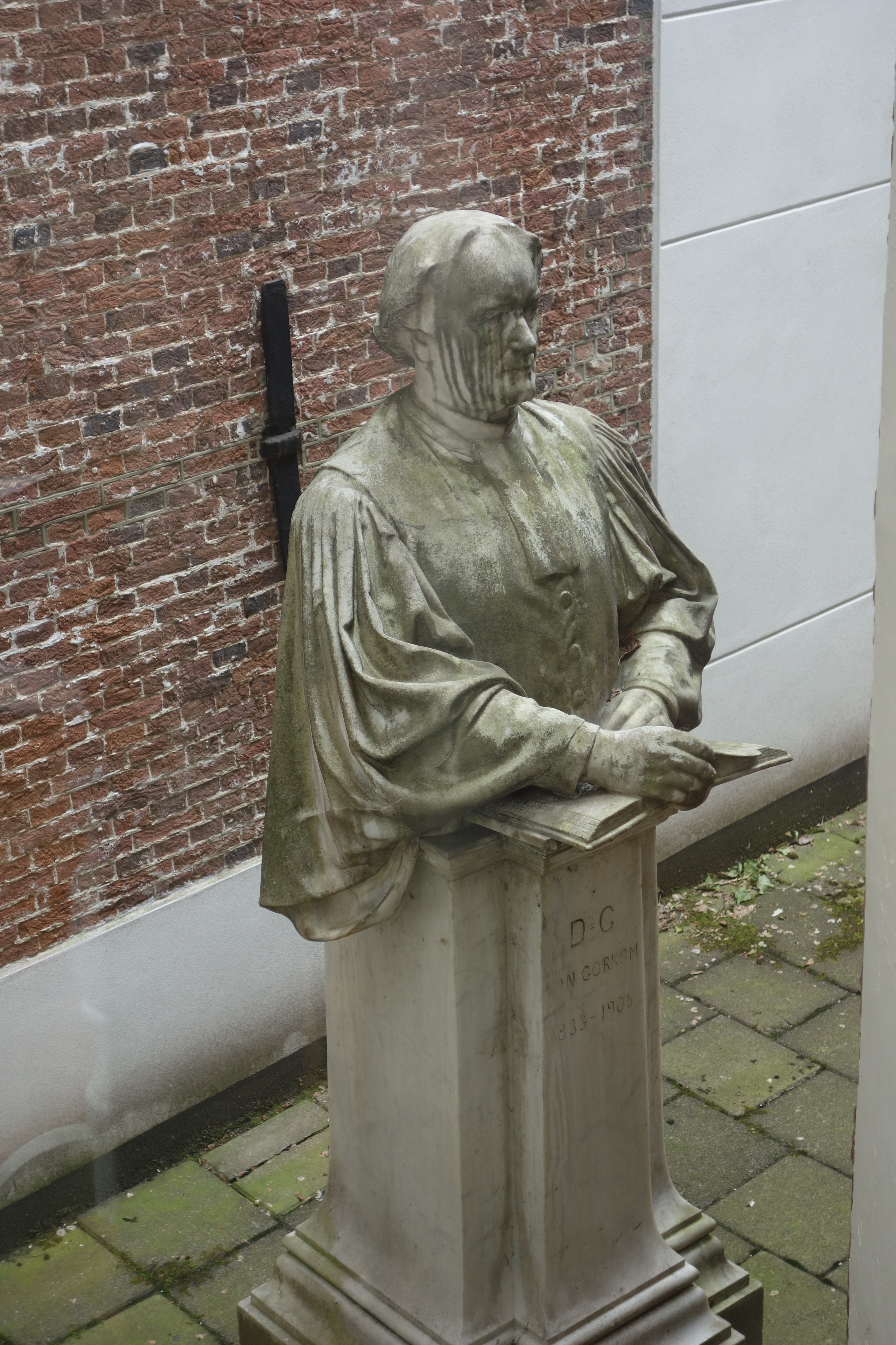 Statue of Dutch writer and preacher Gerrit van Gorkom. Garden of De Rode Hoed, Keizersgracht 102, Amsterdam. Bust made by Annie Tollenaar-Ermeling, ca. 1906